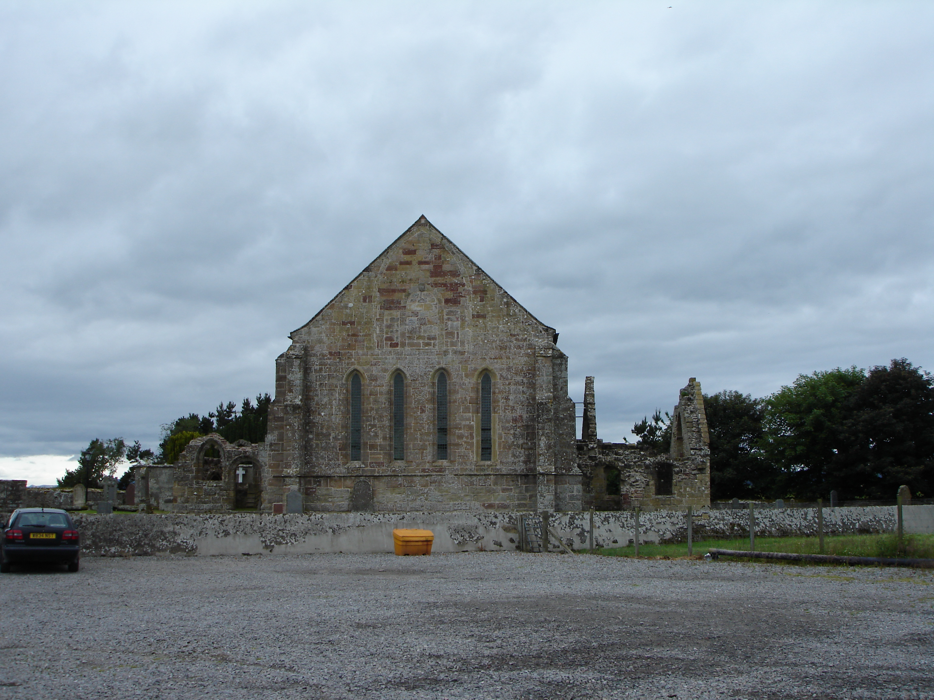 Uploader's own picture. Picture taken of Fearn Abbey in summer 2006.